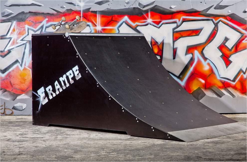 module